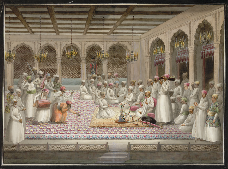 Asaf-ud-dowlah listening to musicians in his court